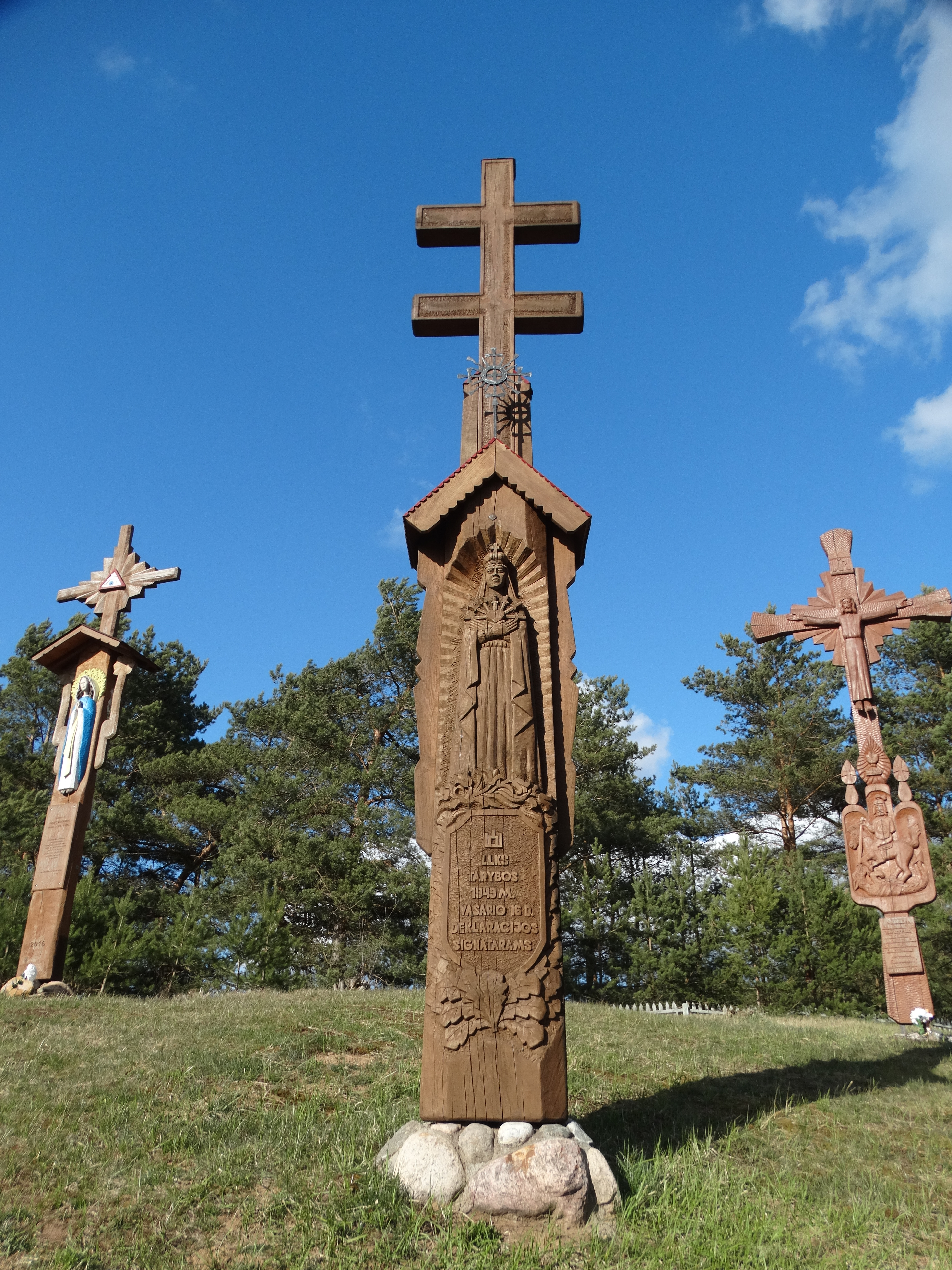 Park of partisans, Kadrėnai, Ukmergė district, Lithuania